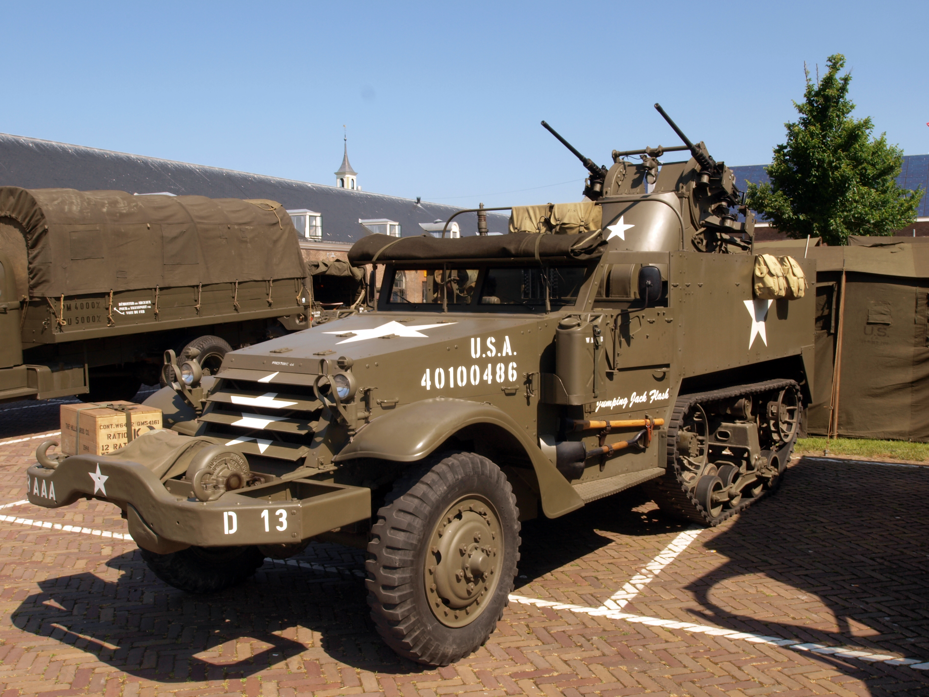 Photographed at Den Helder, The Netherlands. OLYMPUS DIGITAL CAMERA